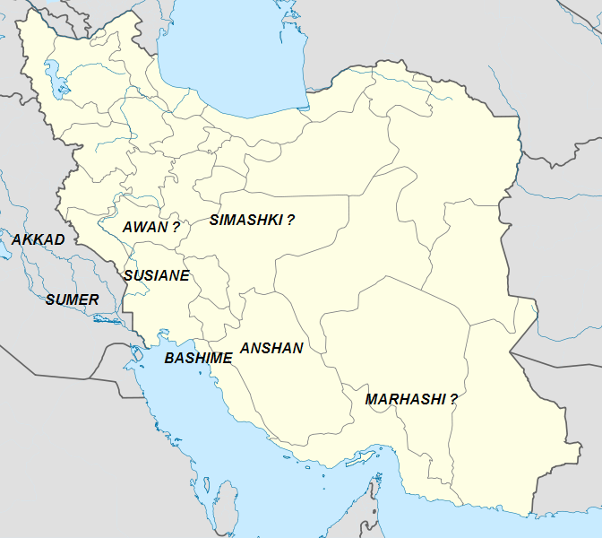 Map of the certain or hypothetical location of several regions of ancient Elam.